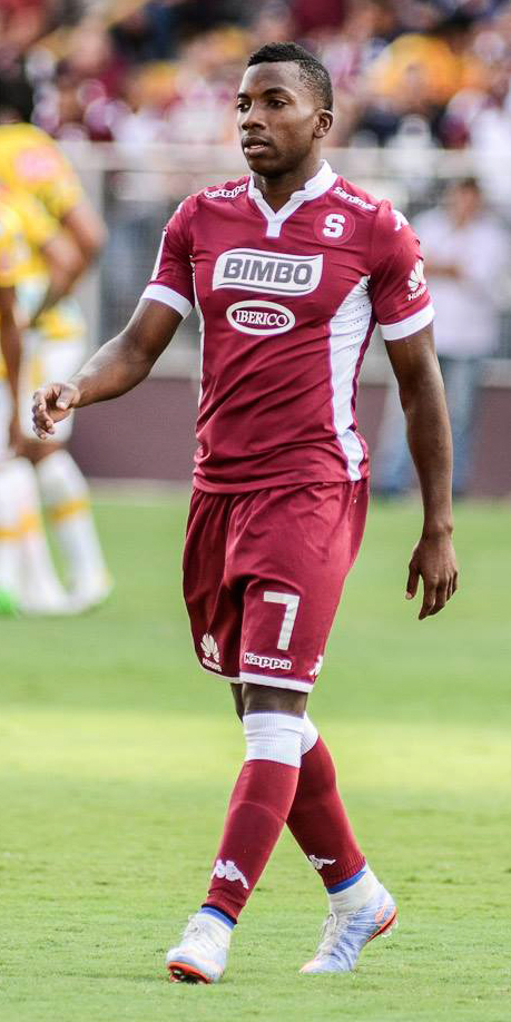 Mynor Escoe playing for Deportivo Saprissa in 2016.